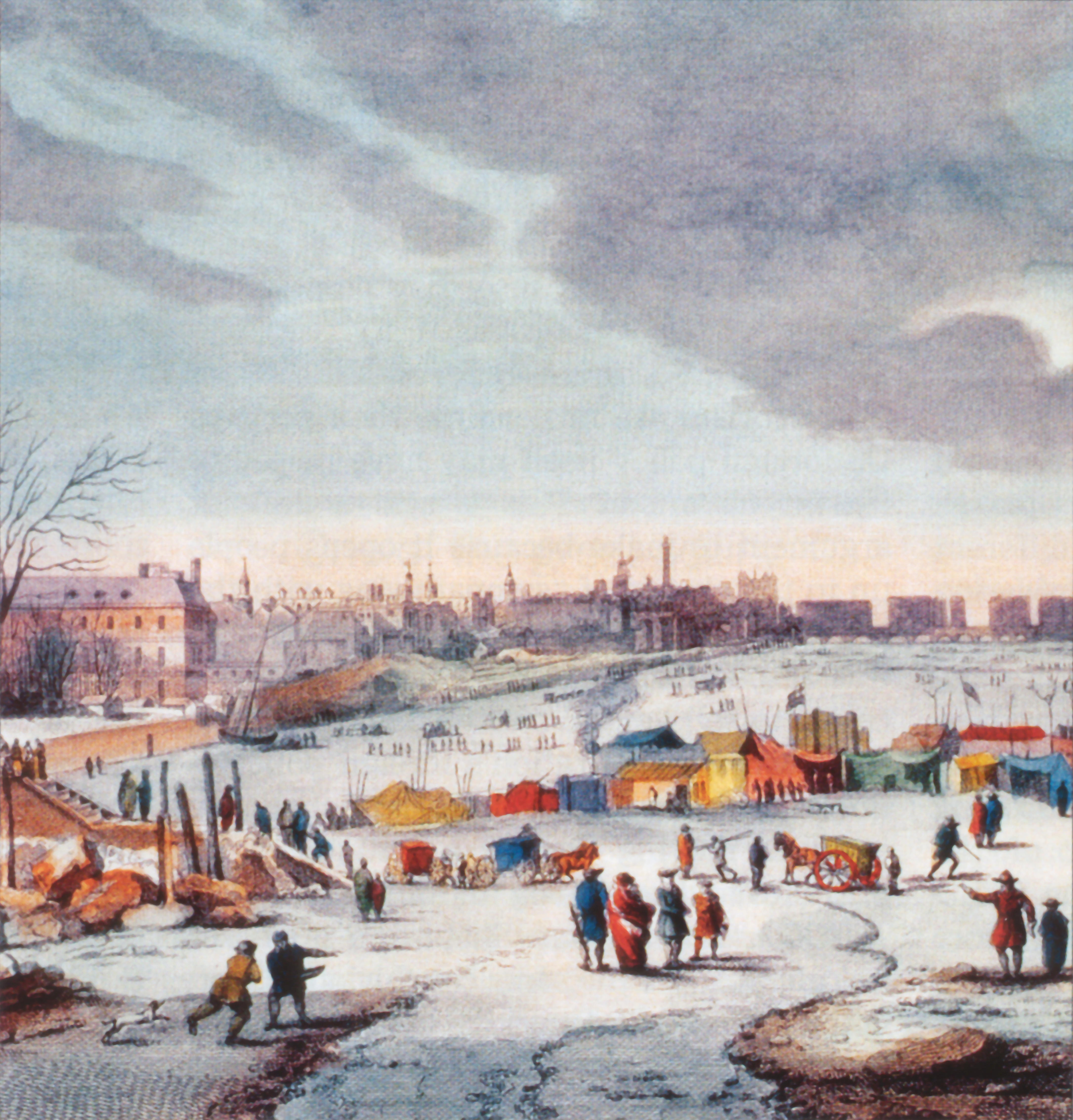 Frost Fair on the River Thames near the Temple Stairs, detail